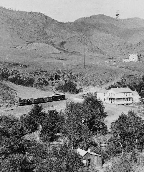 Morrison, Colorado / Denver, South Park, and Pacific Railroad Company.